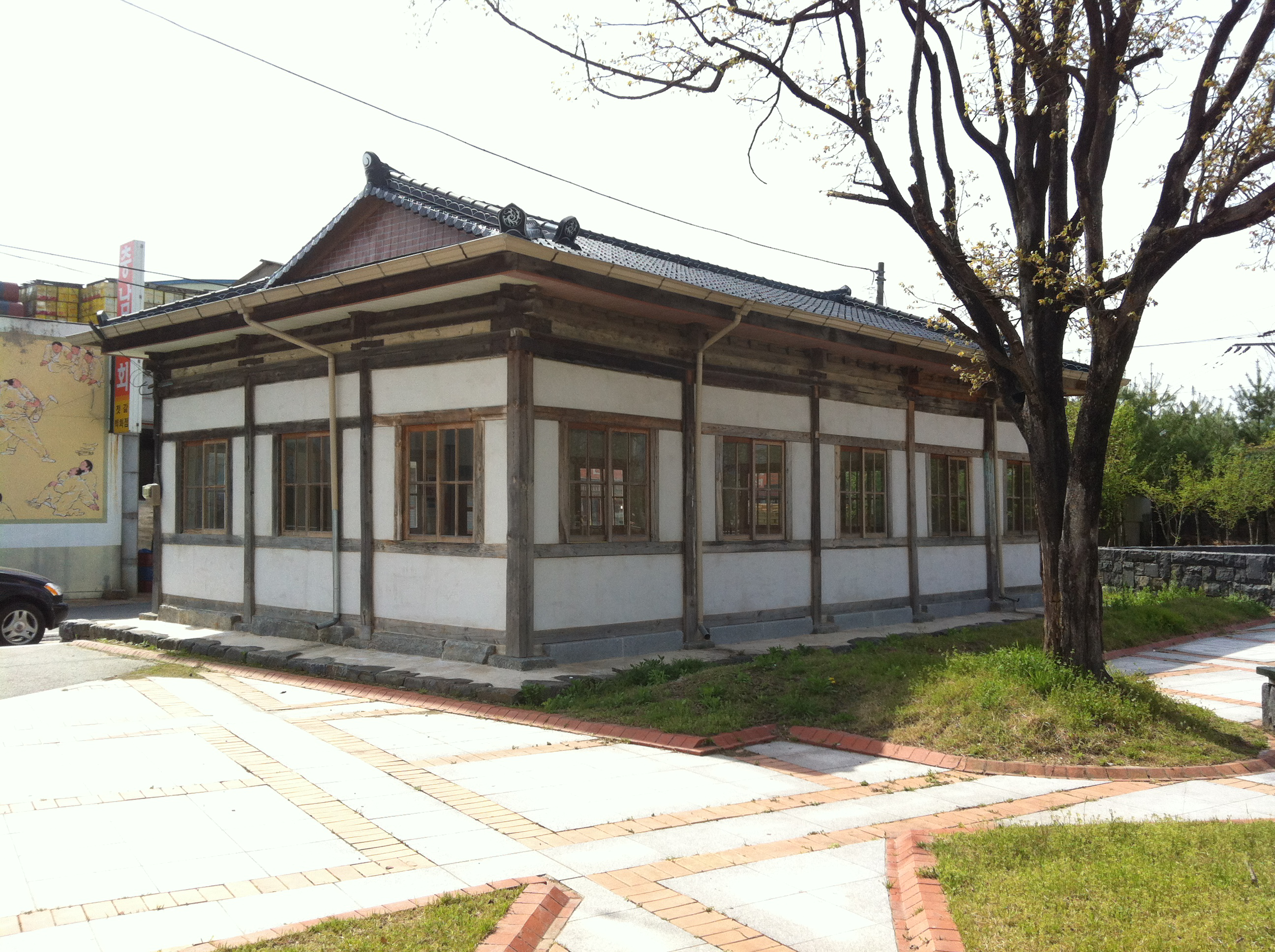 Former Kanggyeong Labor Union Office, found 1920s at Ganggyeong, Nonsan city, Korea